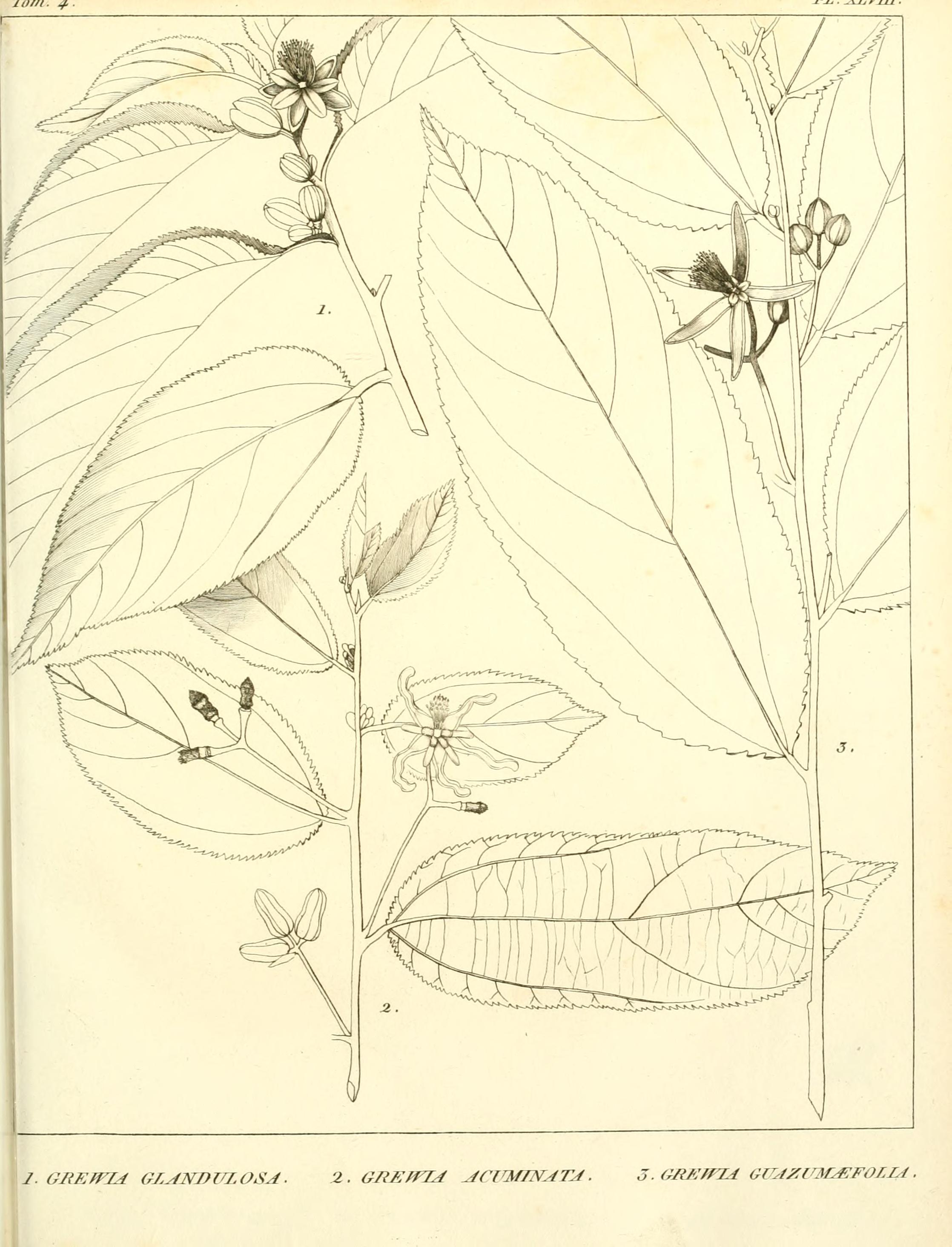 Title: Annales du Muséum d'histoire naturelle Year: 1802 (1800s) Authors: Muséum national d'histoire naturelle (France) Subjects: Natural history; Natural history; Plants Publisher: Paris, G. Dufour, et Ed. d'Ocagne Text Appearing Before Image: ' Text Appearing After Image: 1. GREWIA GLANDULOSA. 2. GREWIA ACUMINATA. 3. GREWIA GUAZUMIFOLIA.